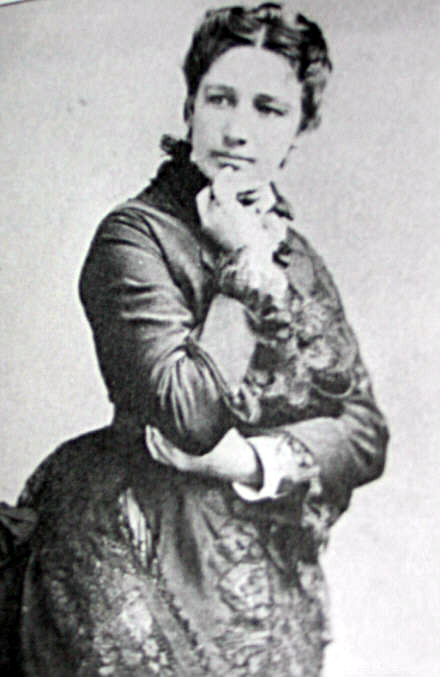 Victoria Woodhull